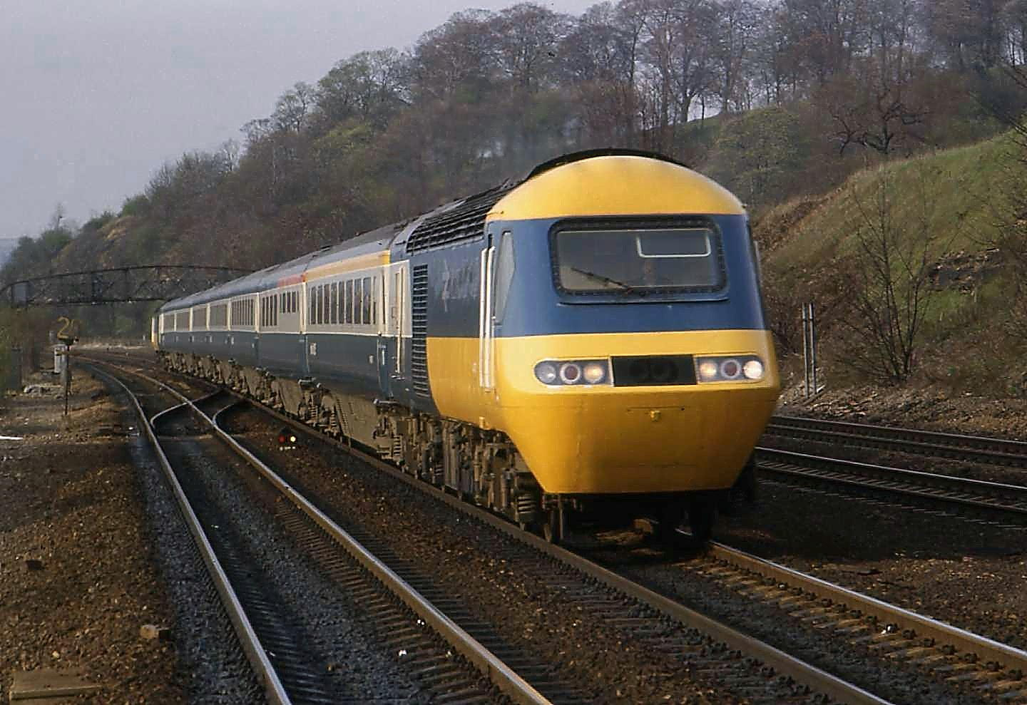 This was an ex-works set